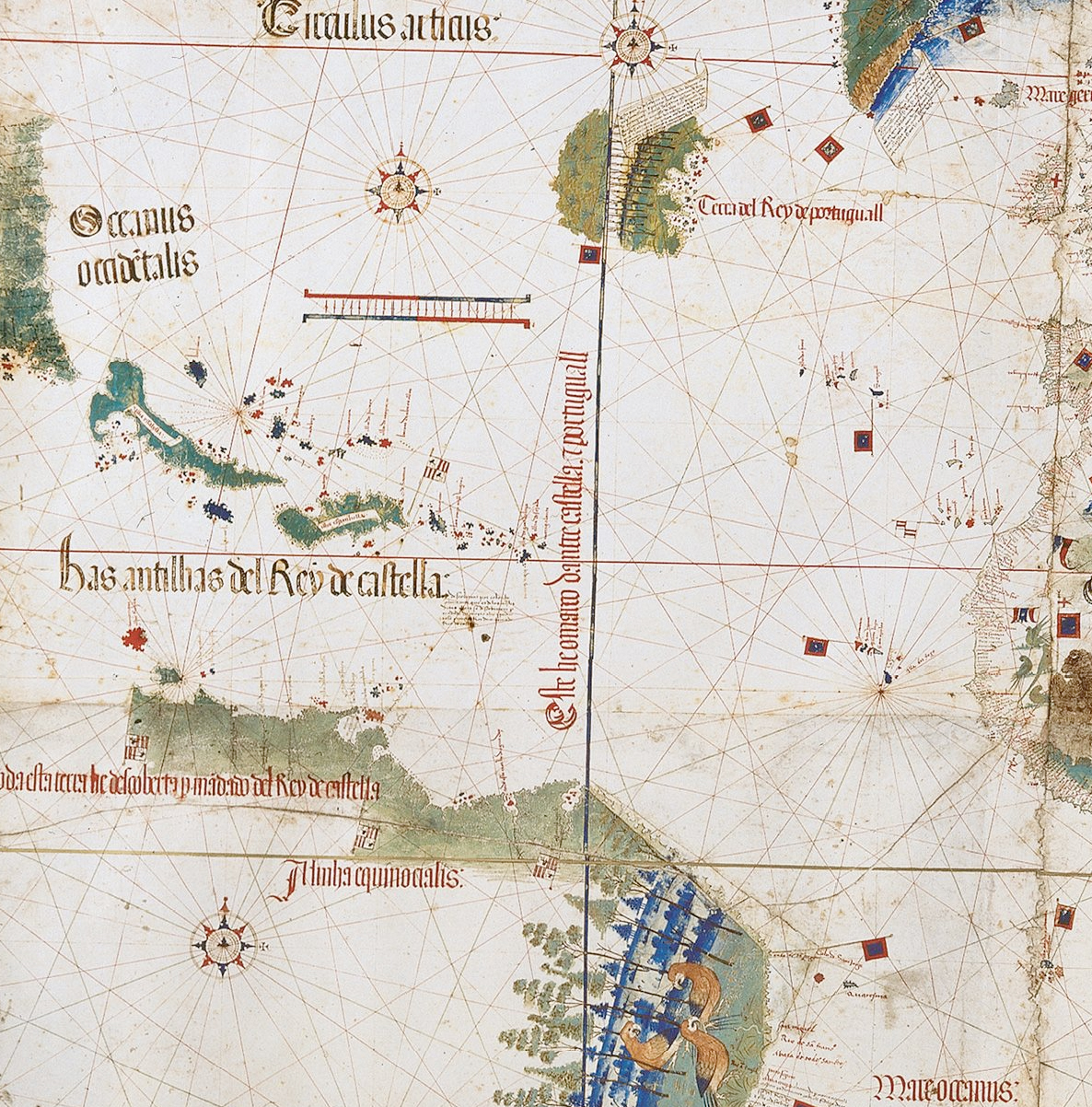 Image pasted from 27 detailed frames by using Adobe Photoshop. Frames to be found at